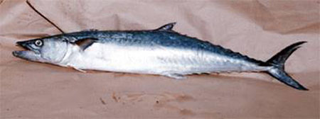 Small king mackerel sometimes have spots like Spanish mackerel but can be distinguished by their sharply dipping lateral line and gray anterior dorsal fin.